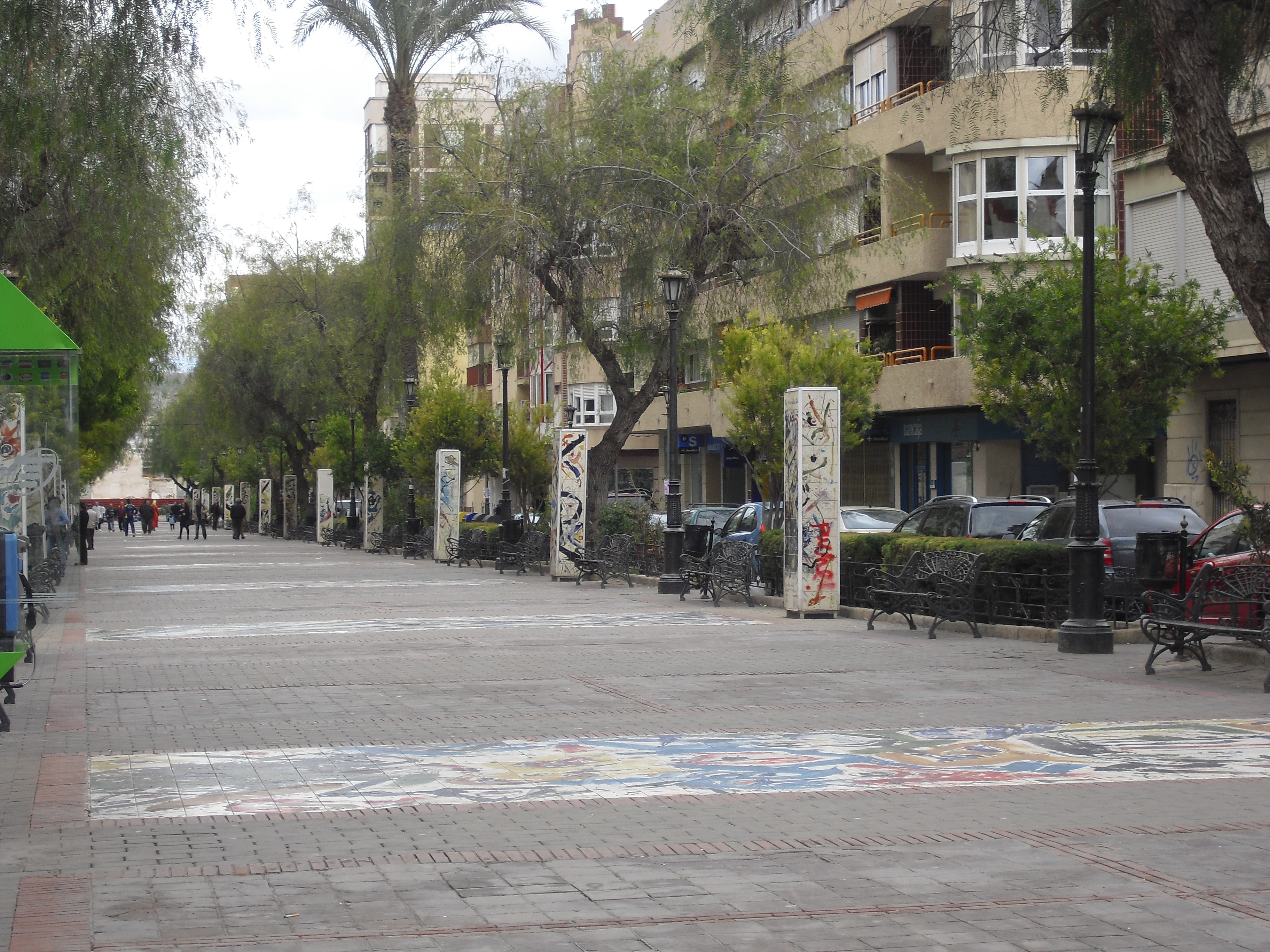 Paseo